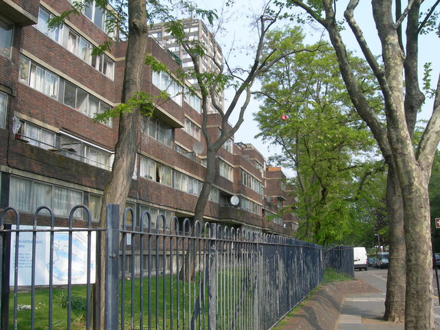 Grenfell Road, W11. Showing the Lancaster West Estate, with Barandon Walk in the foreground, and Grenfell Tower in the background. Picture taken at junction of Bomore Road.